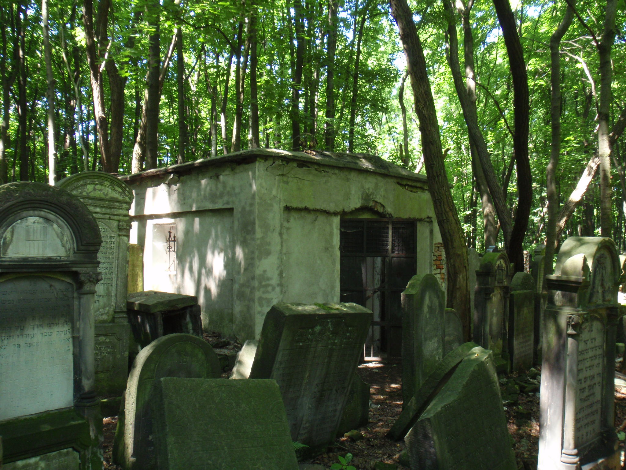 Ohel of Chaim Sołowiejczyk and Cwi Naftali Berlin